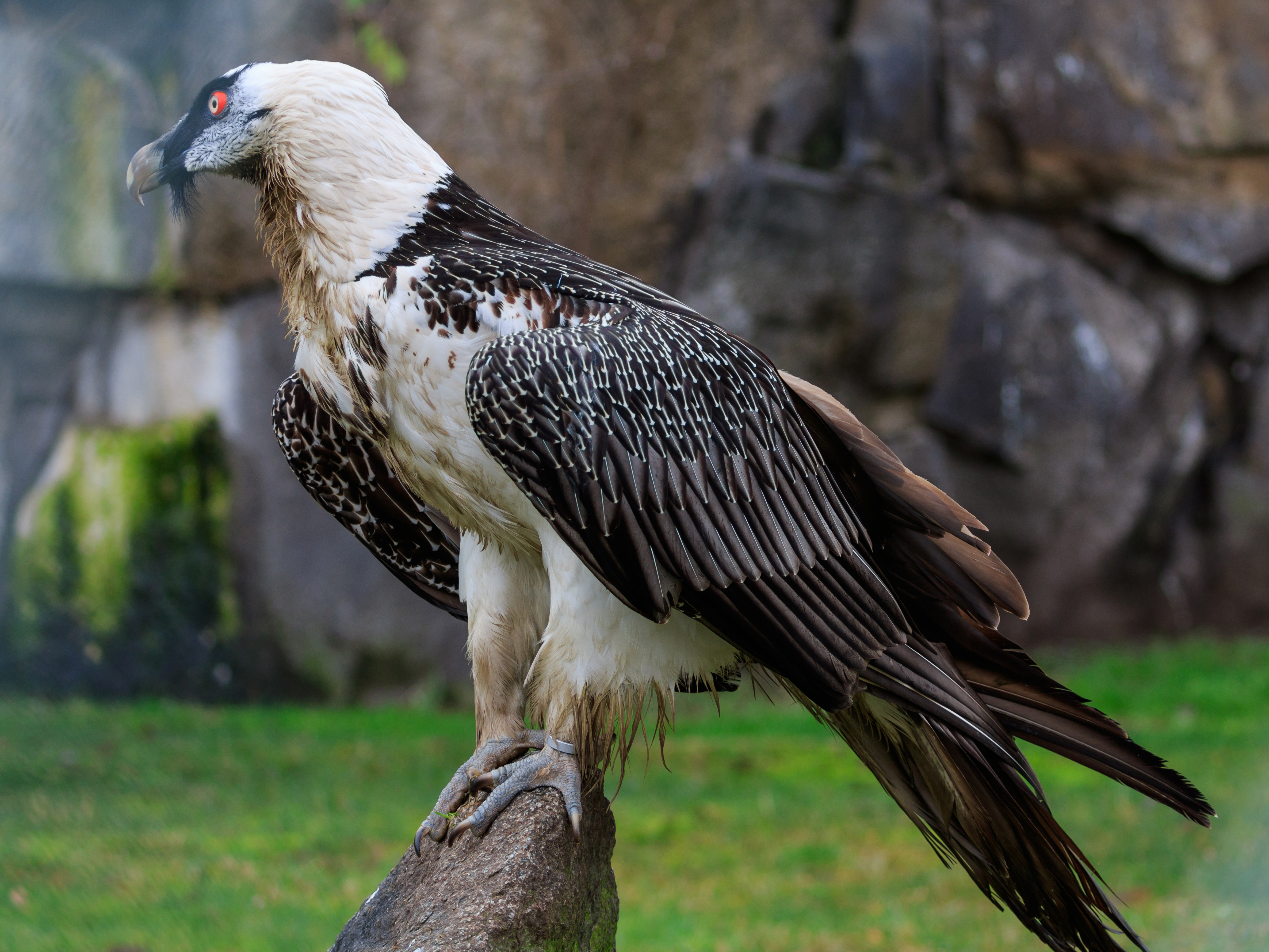 A Bearded vulture in the Berlin Tierpark (Friedrichsfelde zoo)